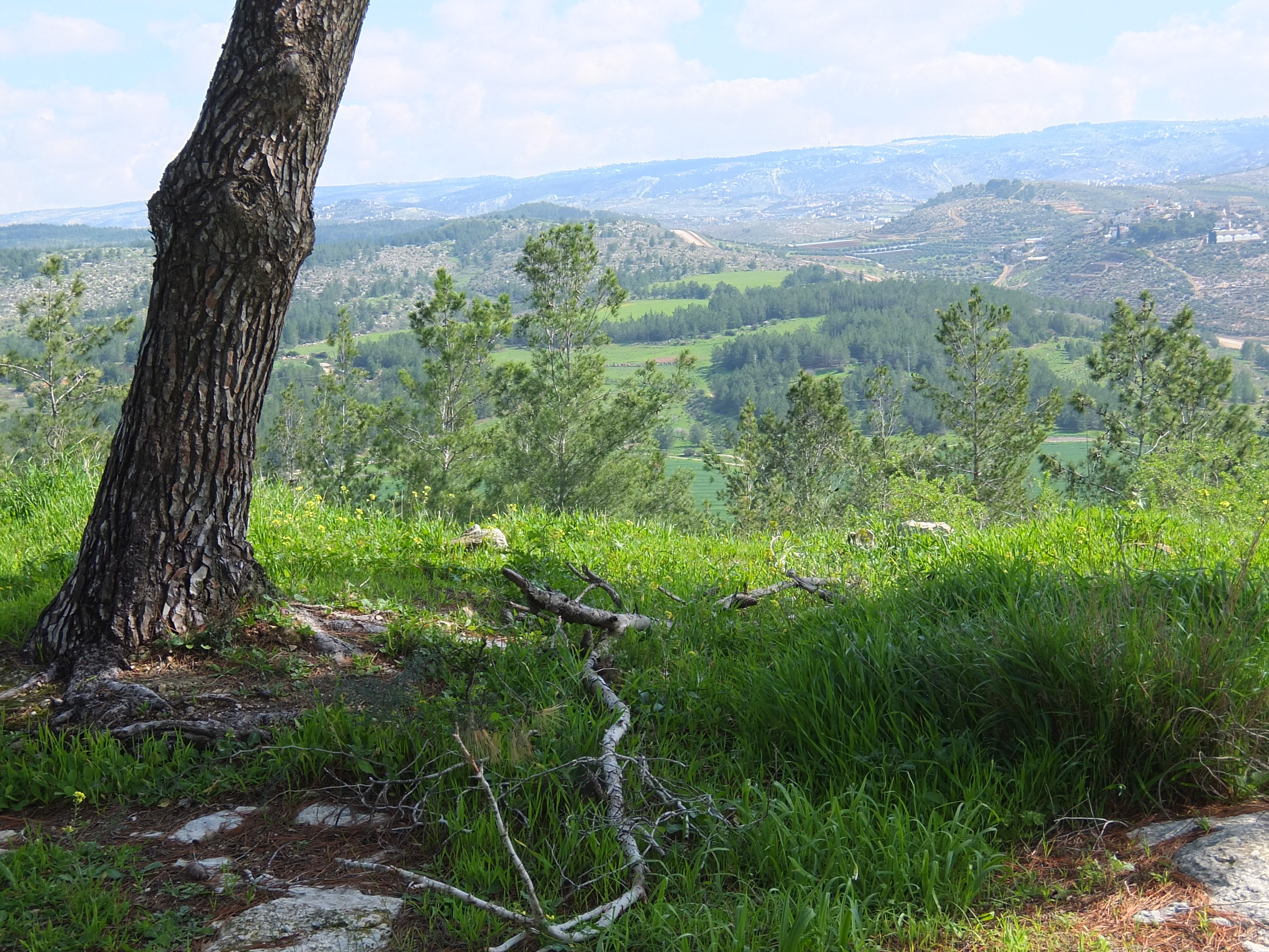 Idyllic scene in the Judean mountains, overlooking the Arab village, Khirbet ed-Deir